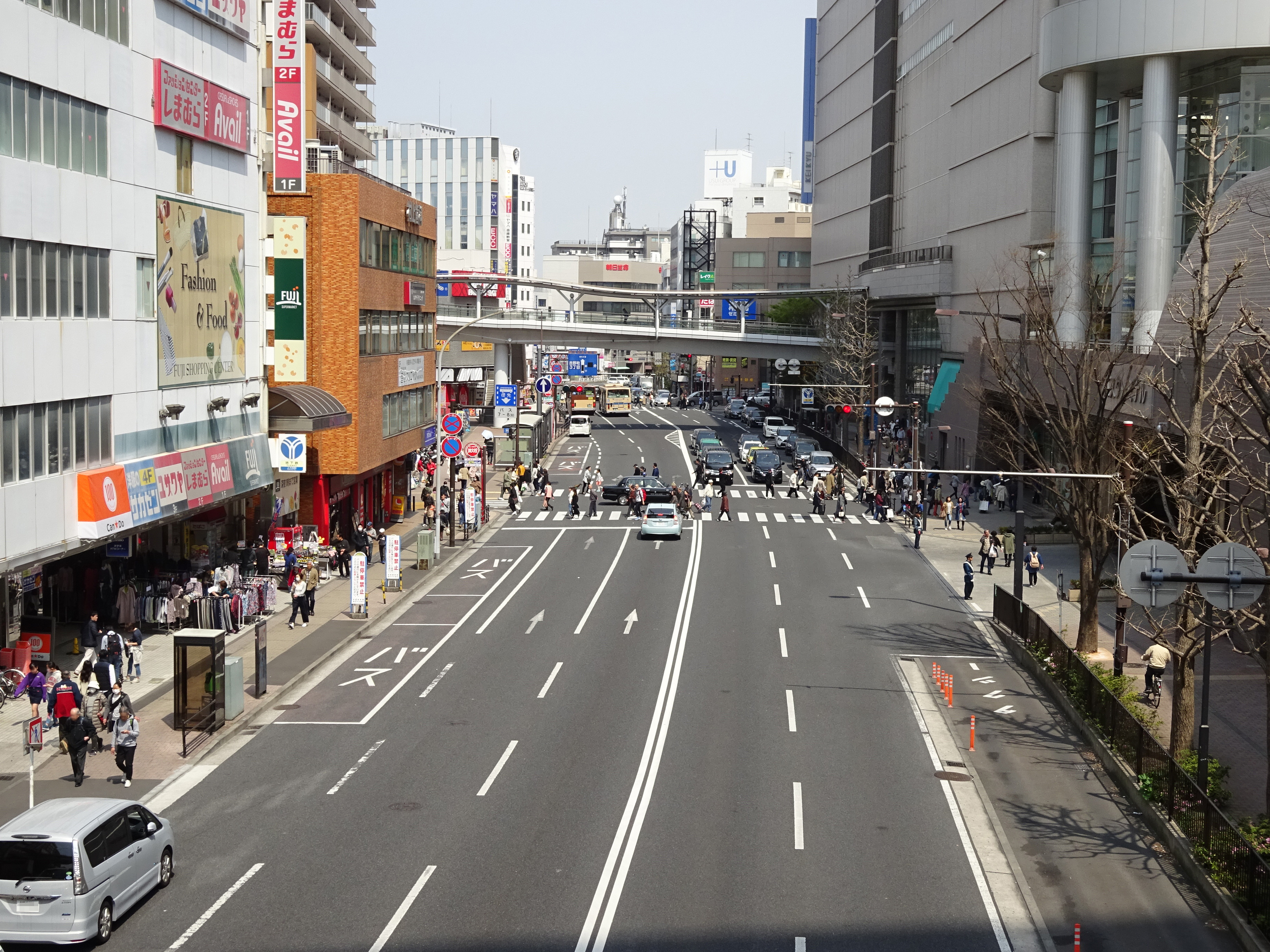 West entrance of Prefectural road route 21 of Kanagawa(In front of Kamiooka Station)